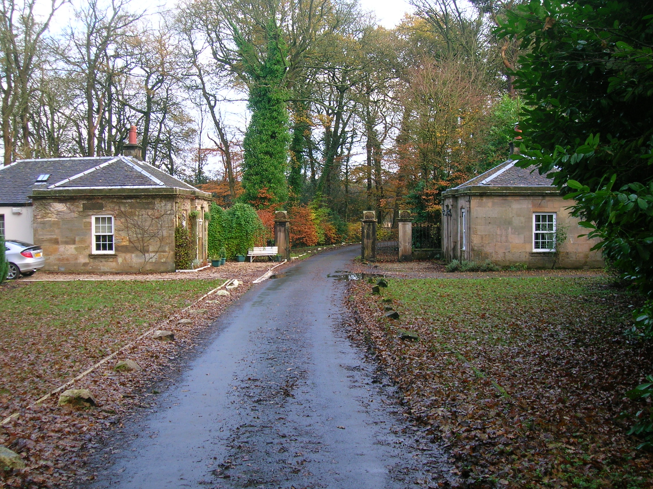 Montgreenan East lodge, Kilwinning, Ayrshire, Scotland.